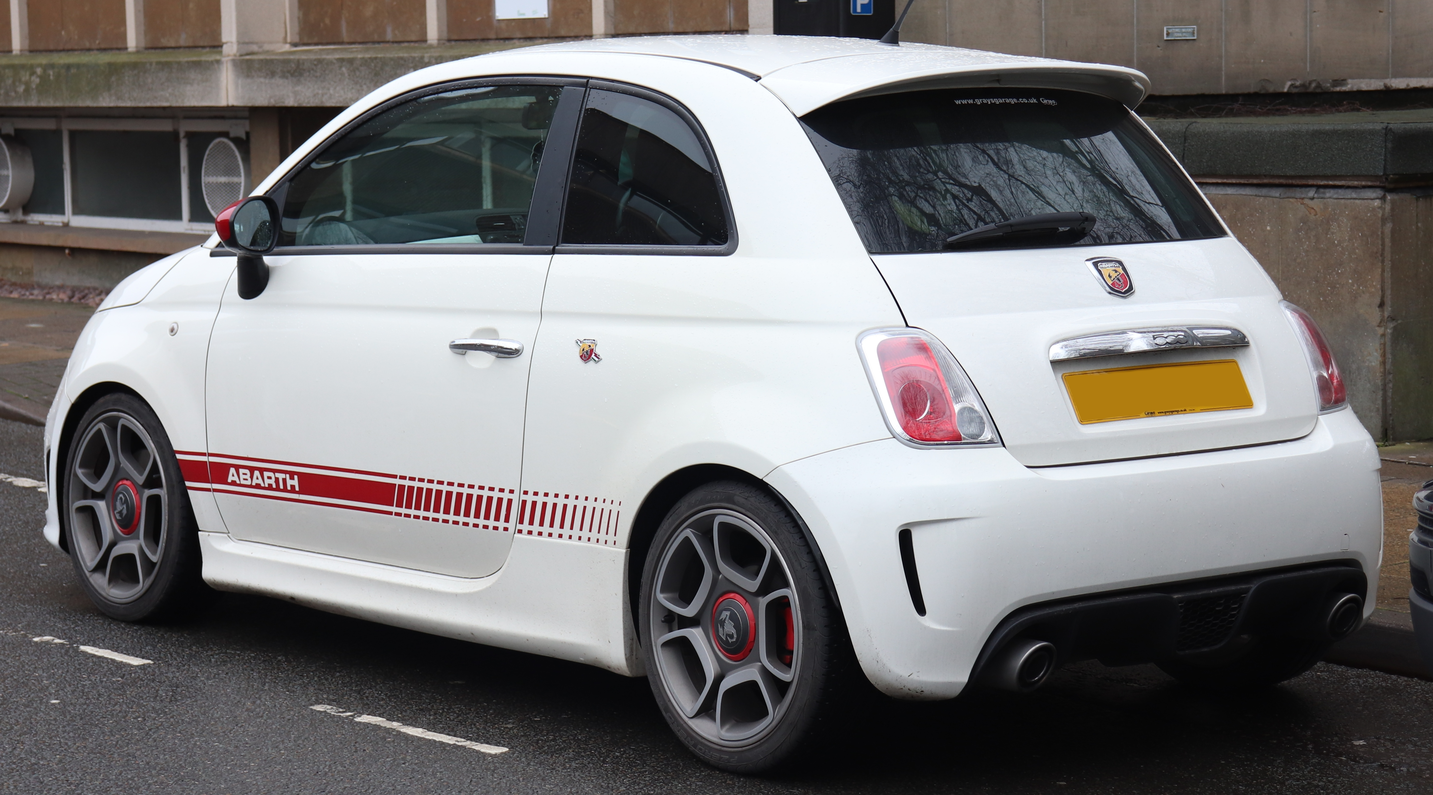 2009 Abarth 500 1.4 Rear Taken in Warwick